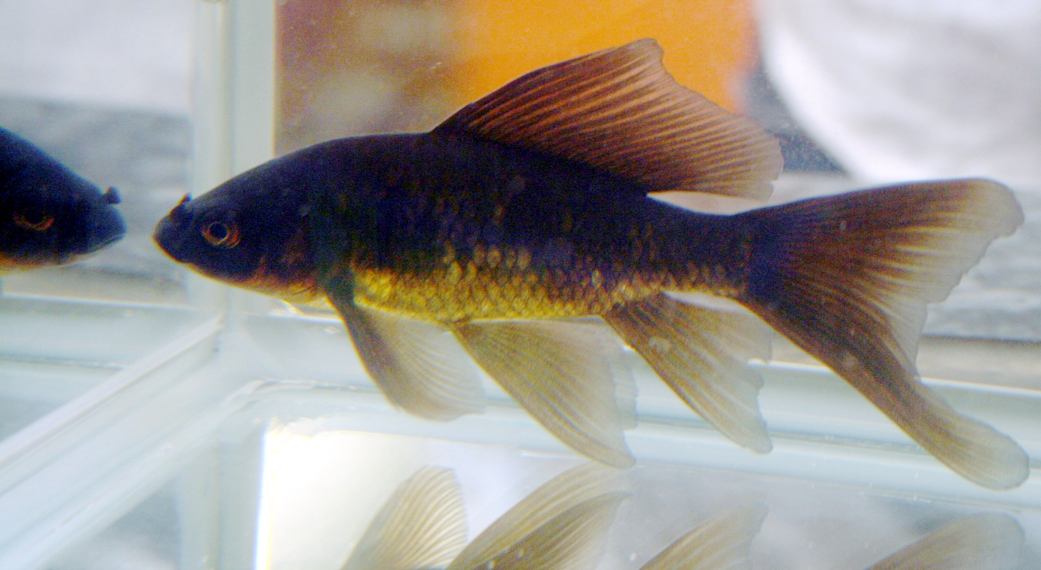 Black Comet Goldfish.